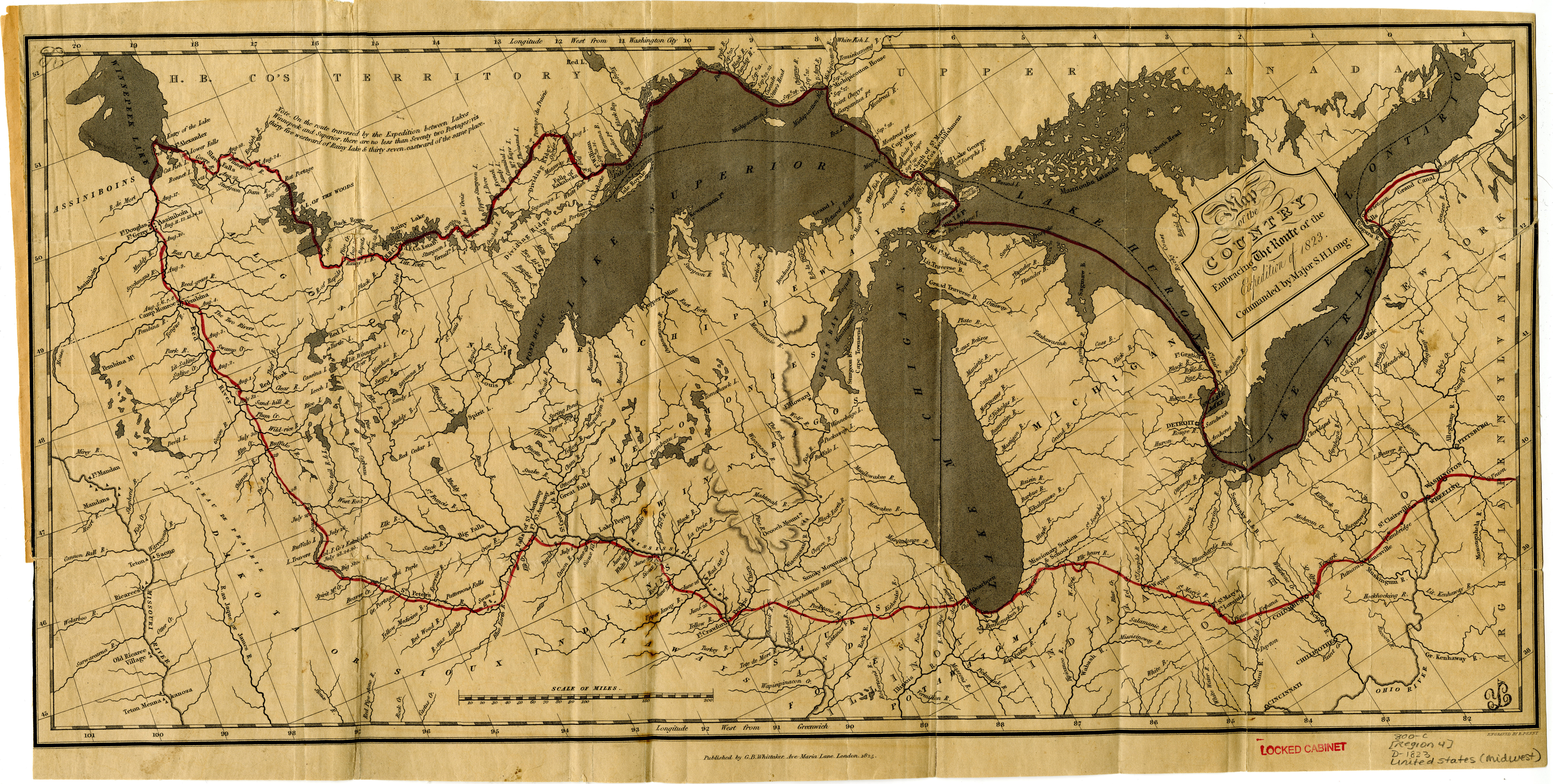 Map of the country embracing the route of the expedition of 1823 commanded by Major S.H. Long / engraved by R. Penny. London : G.B. Whittaker, 1825. Map of the Great Lakes and Rainy River regions and the valleys of the Minnesota River and Red River of the North, showing the route of the 1823 expedition of Stephen Harriman Long. Includes descriptive notes, and indicates the dates and locations where the expedition stopped. Indicates settlements, forts, and Native American tribal regions. The route of the expedition is shown in red. Map detached from: Narrative of an expedition to the source of St. Peter's River : Lake Winnepeek, Lake of the Woods, &c., performed in the year 1823, by order of the Hon. J.C. Calhoun, Secretary of War, under the command of Stephen H. Long, U.S.T.E. : compiled from the notes of Major Long, Messrs. Say, Keating, & Colhoun by William H. Keating. London : G.B. Whittaker, 1825. Scan of a map in the collection of the Michigan State University Map Library. Catalog record